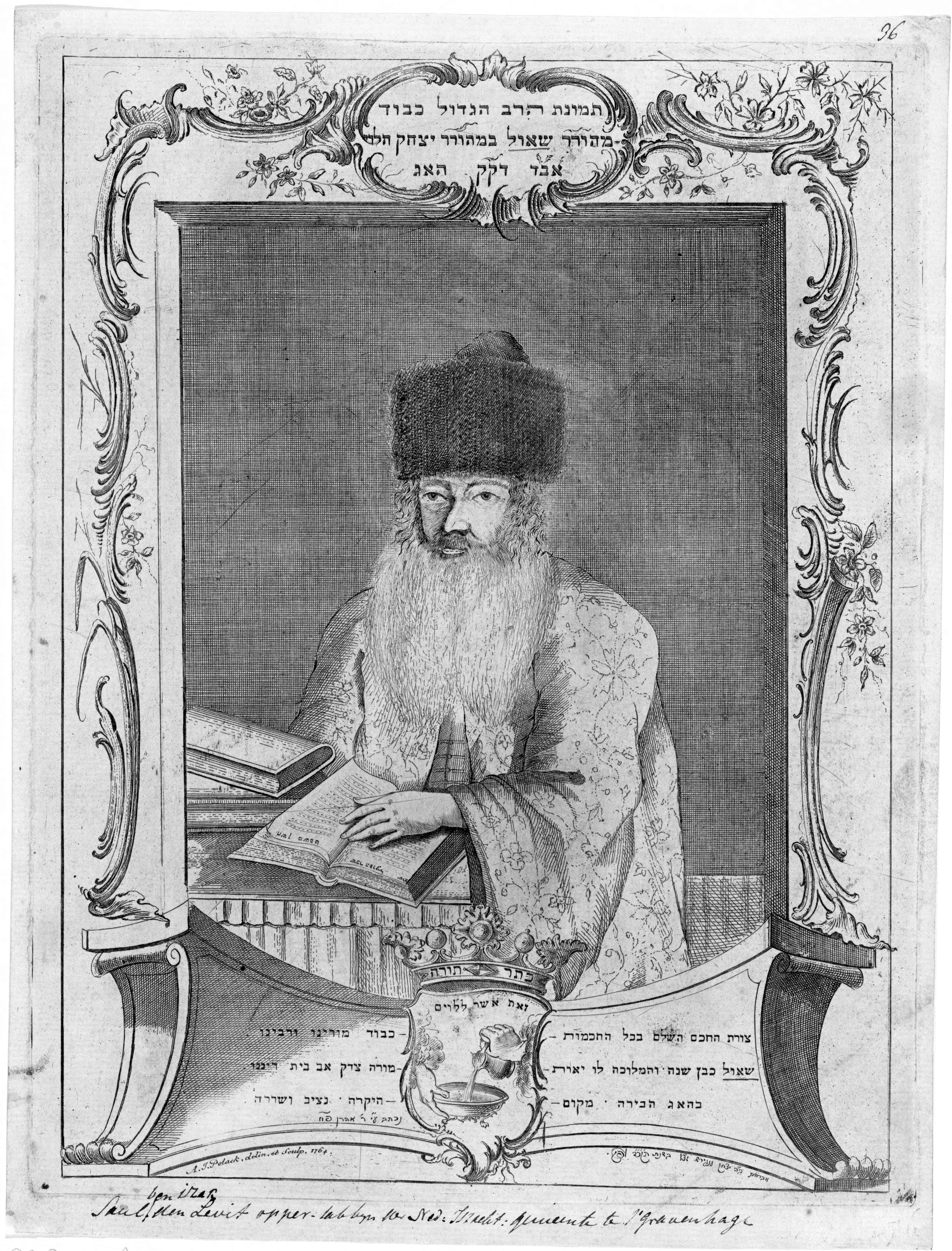 Portrait of Saul ben Isaac Halevi, Chief Rabbi of the Dutch Jewish Community in The Hague. Rabbi Saul ben Isaac Halevi, appointed in 1748 as chief rabbi of the Ashkenazi Jews in The Hague, was born in The Hague in 1712, deceased on May 5, 1785.